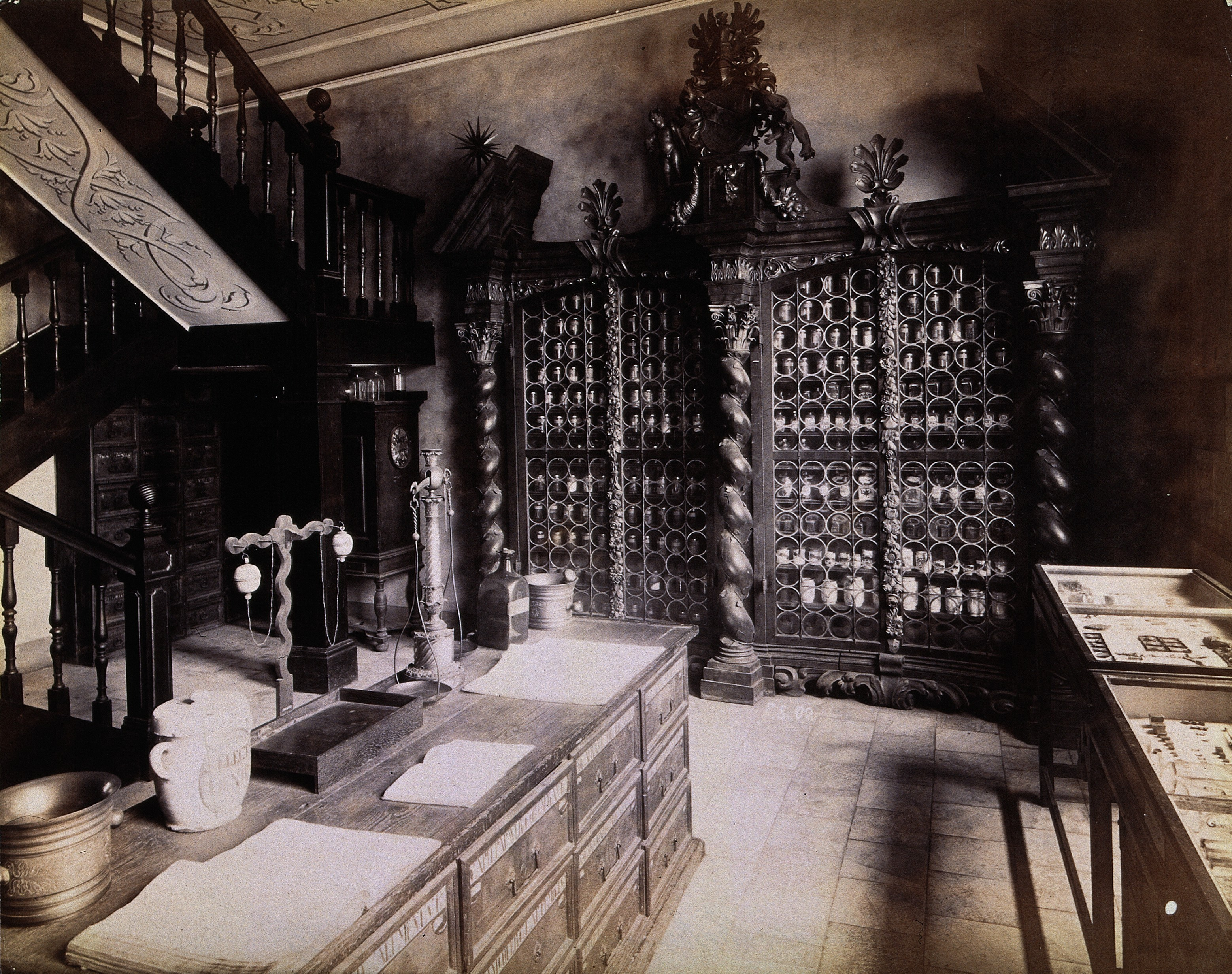 An eighteenth-century apothecary's shop with intricately carved wooden showcases; recreated for the Deutsches Museum in Nürnberg. Photograph. Iconographic Collections Keywords: Germanic Museum, Nürnberg